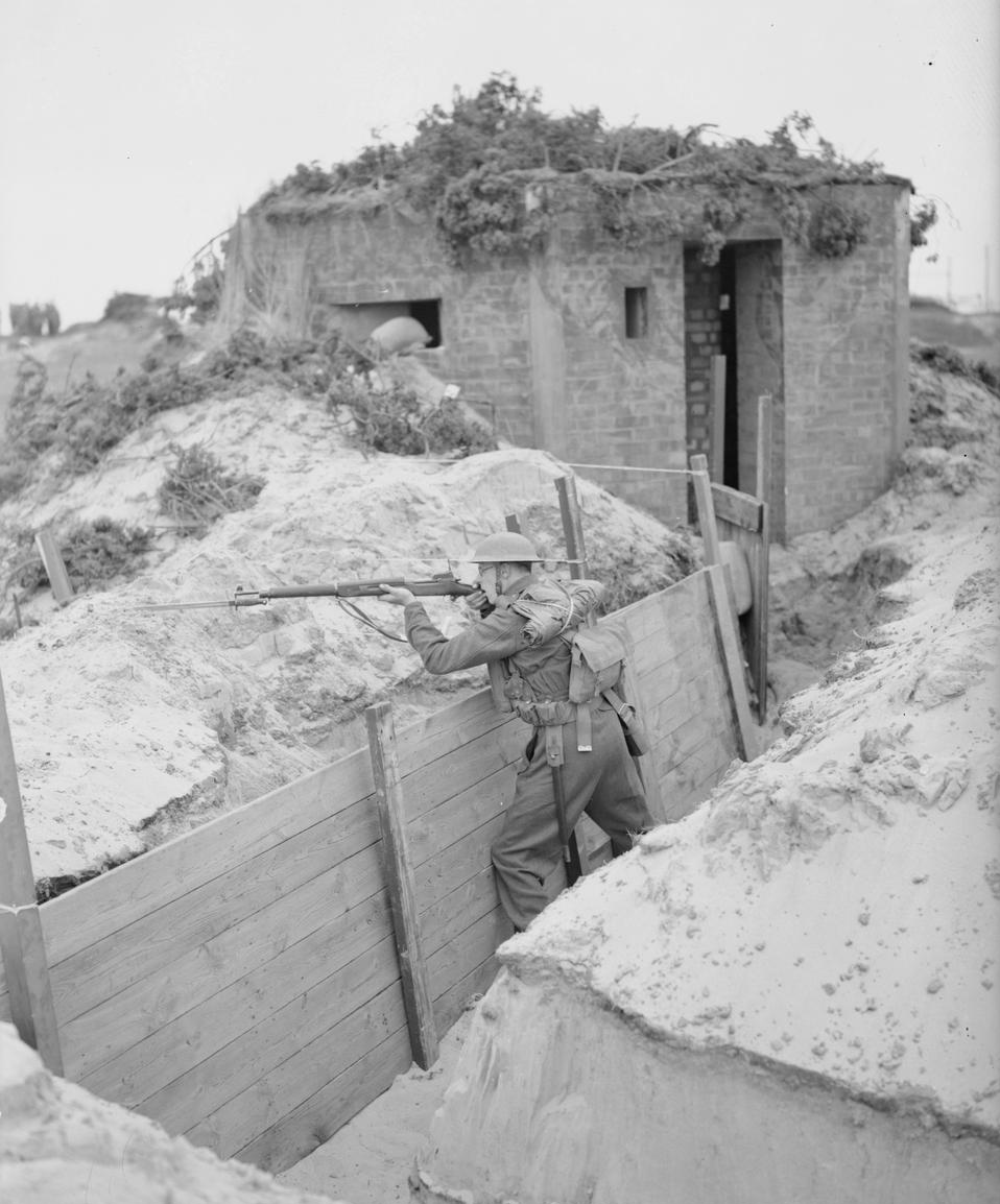 The British Army in the United Kingdom 1939-45 A soldier of the 4th Battalion, The Royal Norfolk Regiment, mans a trench near a pillbox at Great Yarmouth, 31 July - 2 August 1940